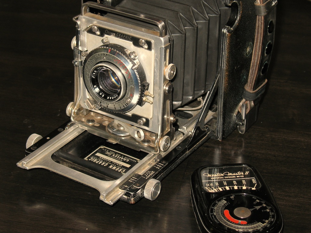 Graflex Crown Graphic press camera and exposure meter.